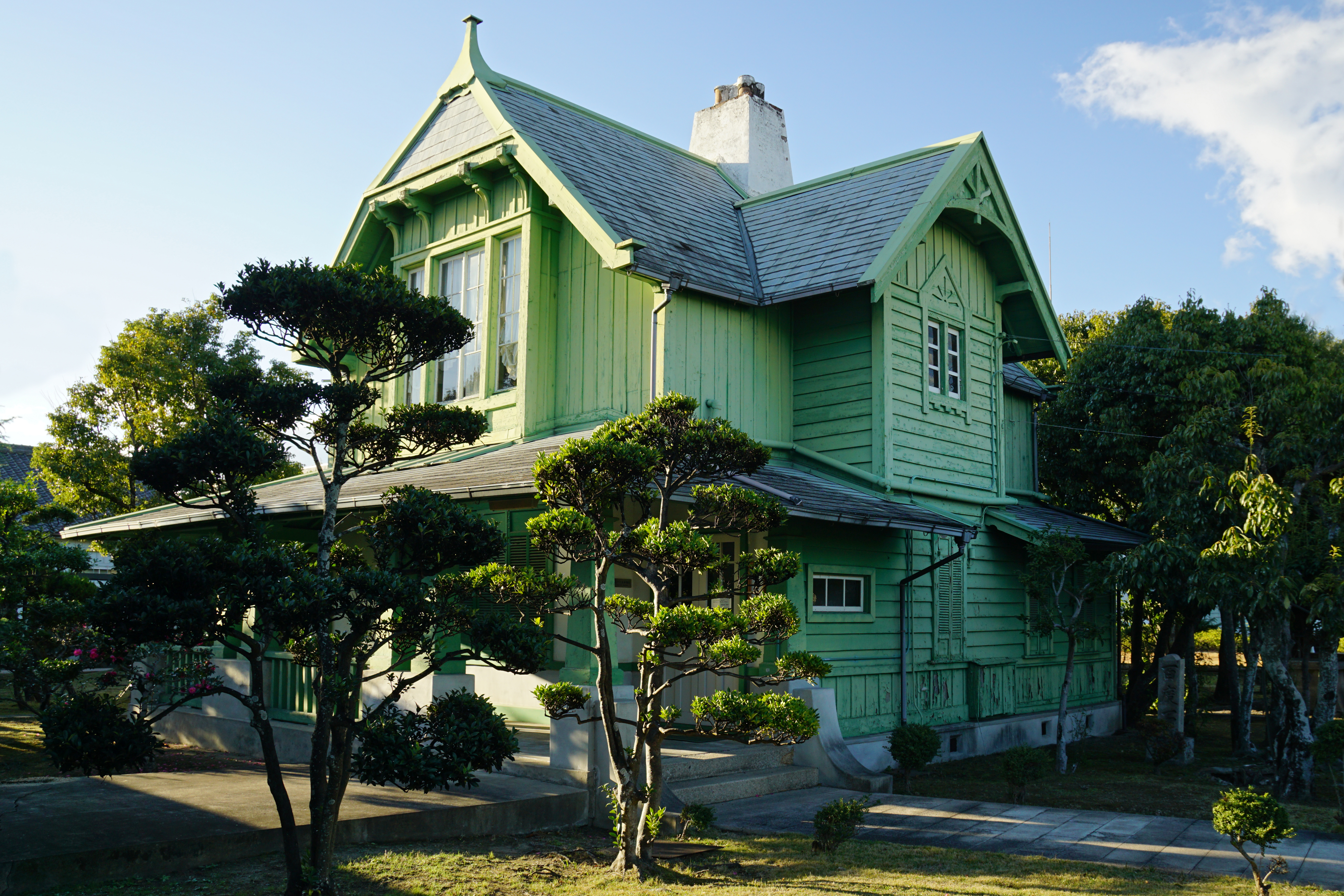 Daicel-Ijinkan Former Library in Himeji, Hyogo Prefecture, Japan. It was built in 1910.